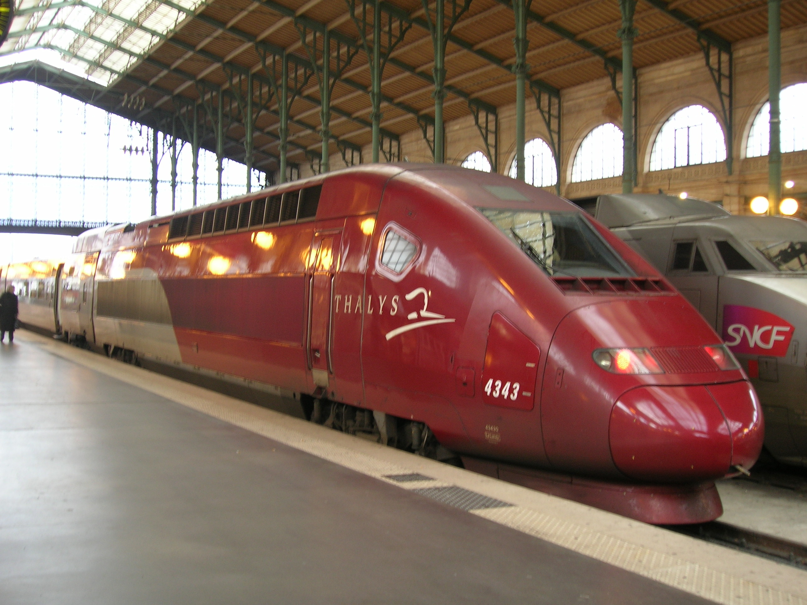 Author :Vincent BABILOTTE SNCF TGV PBKA 4343 Paris, Gare du Nord 26/12/2005